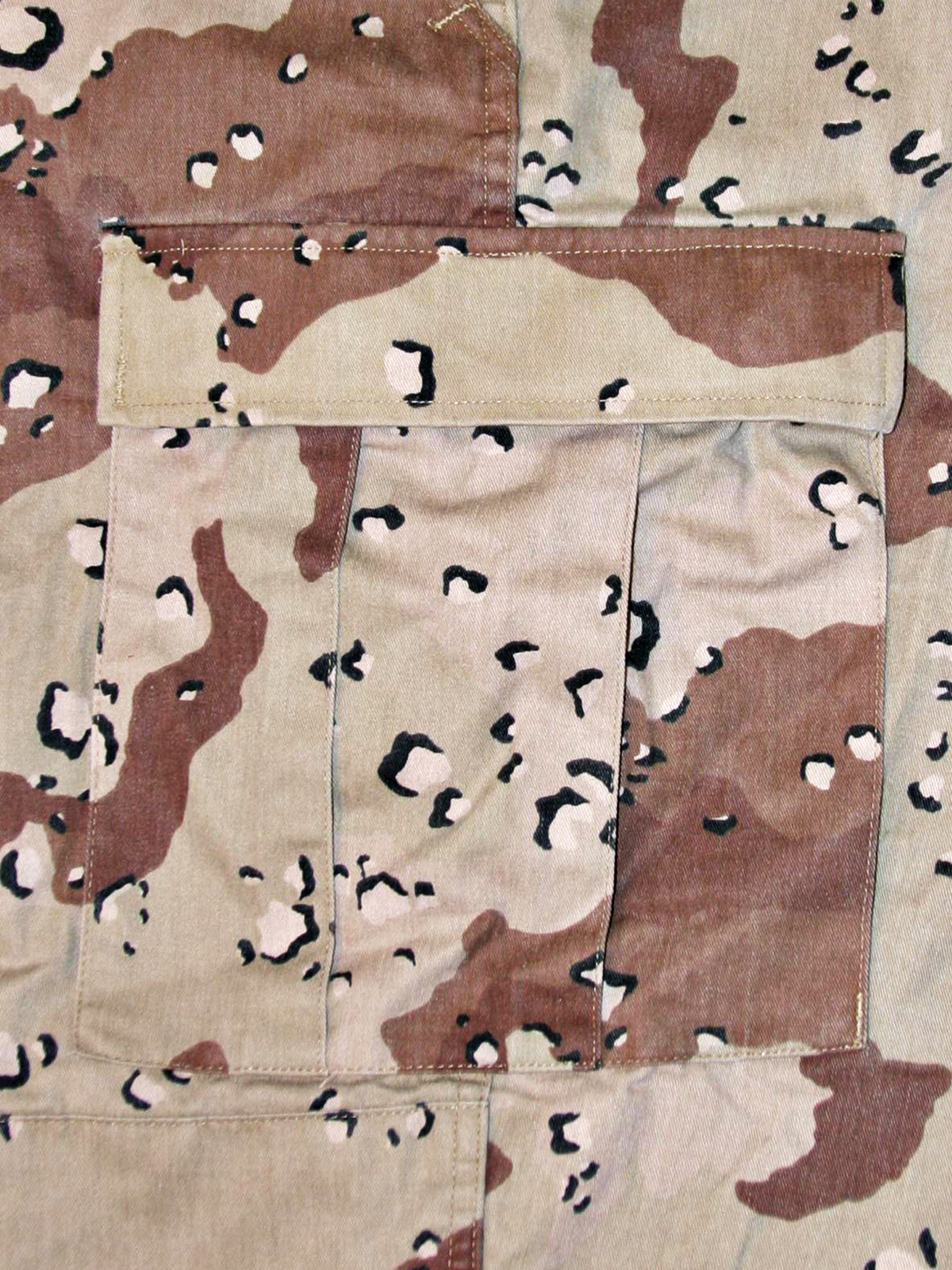 Chocolate Chip BDU pants. Taken 1/31/05 by User:Pretzelpaws with a Canon EOS-10D camera. Cropped 2/8/05 using the GIMP. Contents 1 Licensing 2 Original upload log 3 Licensing 4 Original upload log Licensing Original upload log The original description page was here. All following user names refer to en.wikipedia. 2005-02-09 08:17 Pretzelpaws 1628×2792×8 (565167 bytes) Chocolate Chip BDU pants.